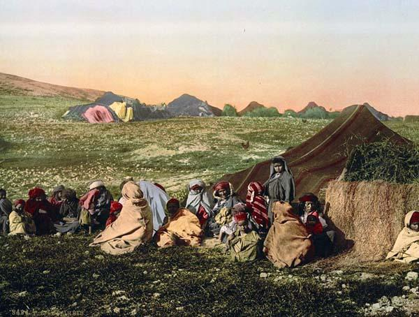 Photograph of Bedouins (wandering Arabs) of Tunisia. This color photochrome print was taken in 1899 in Tunisia.